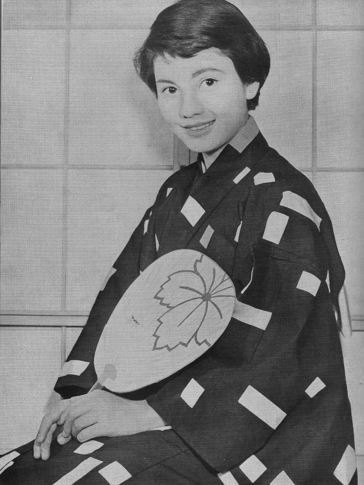 Hitomi Nakahara (Japanese Actress). taken in 1955.